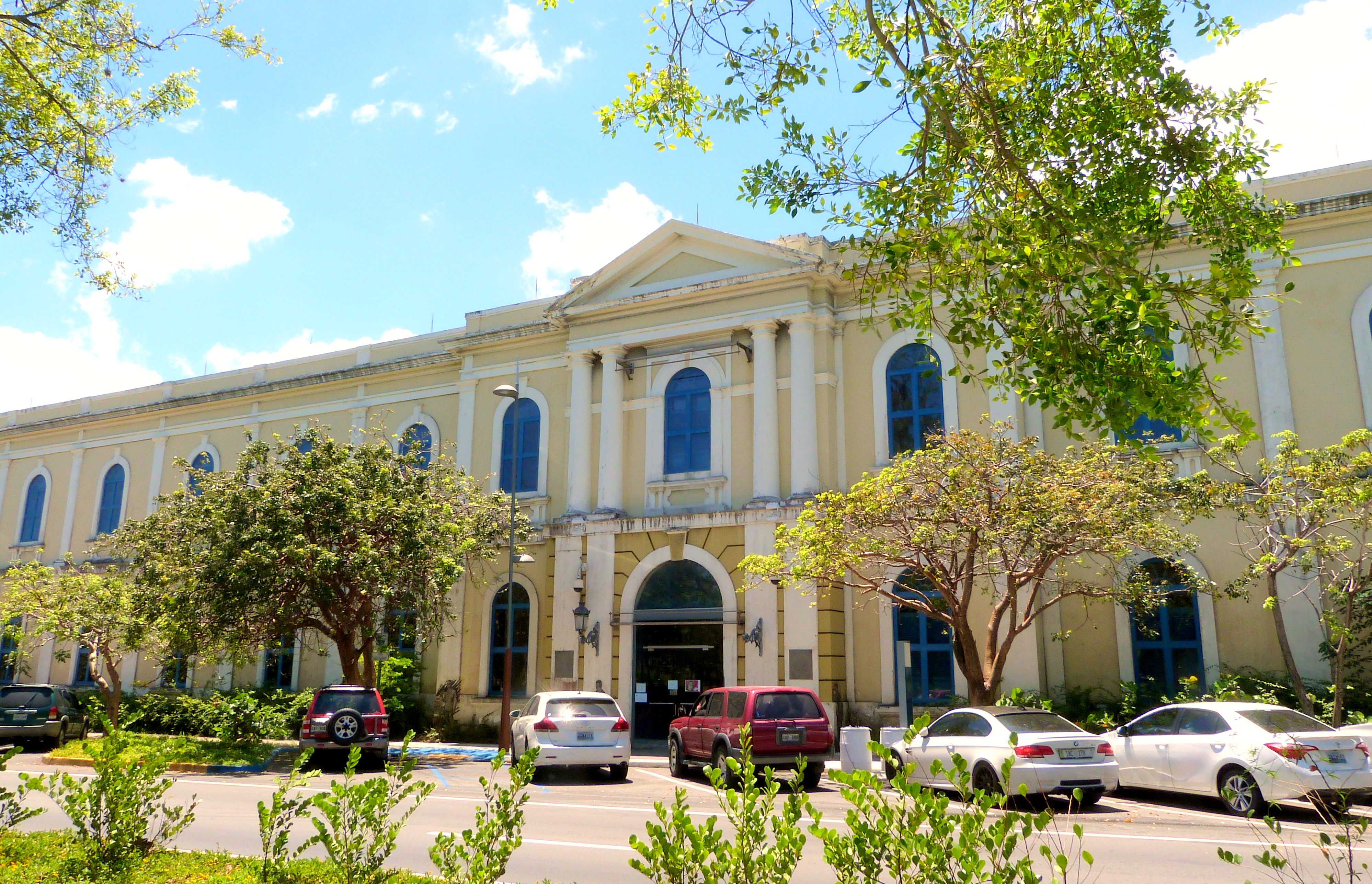 Main facade of the Puerto Rico National Library facing Avenida Ponce de León and Luis Muñoz Rivera Park in Old San Juan, Puerto Rico.